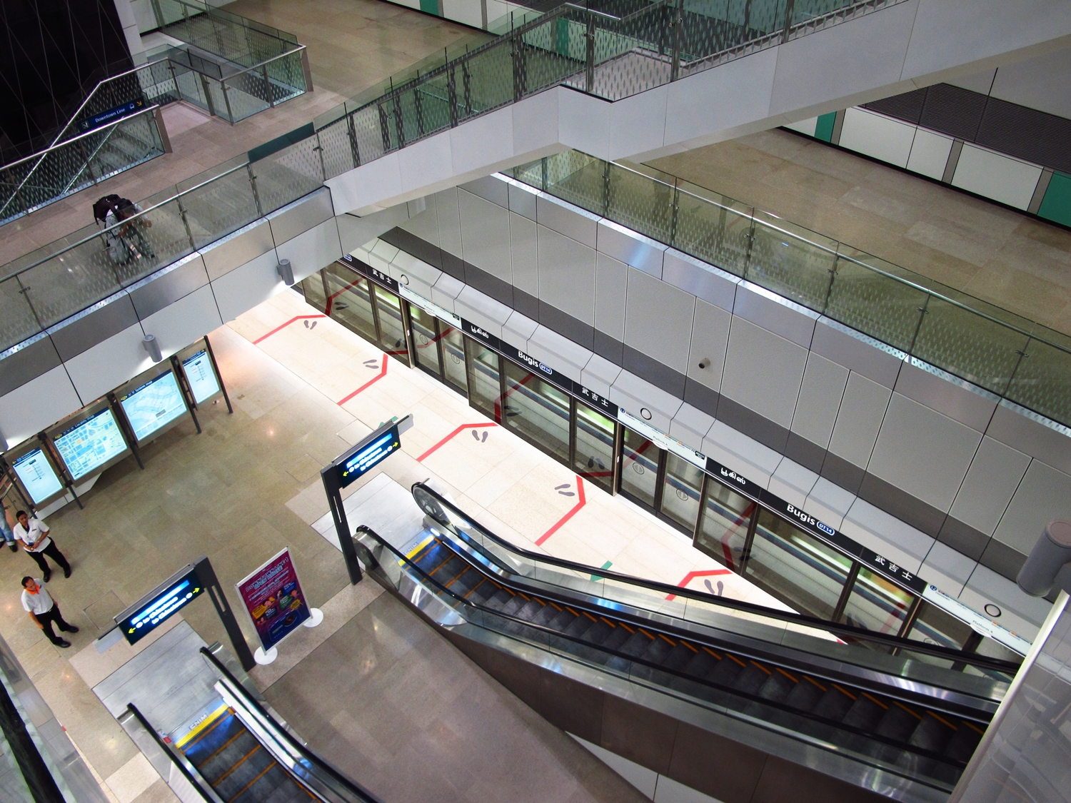 The Downtown Line platform of Bugis MRT Station, Singapore.